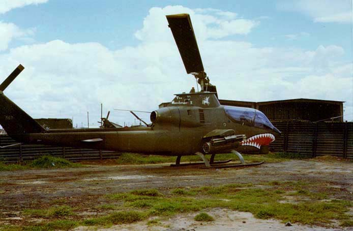 A U.S. Army Bell AH-1G Cobra, 3d Squadron, 4th Cavalry (Centaur) in Vietnam.